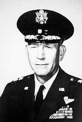 Undated US Air Force photo of Major General Chesley G. Peterson.